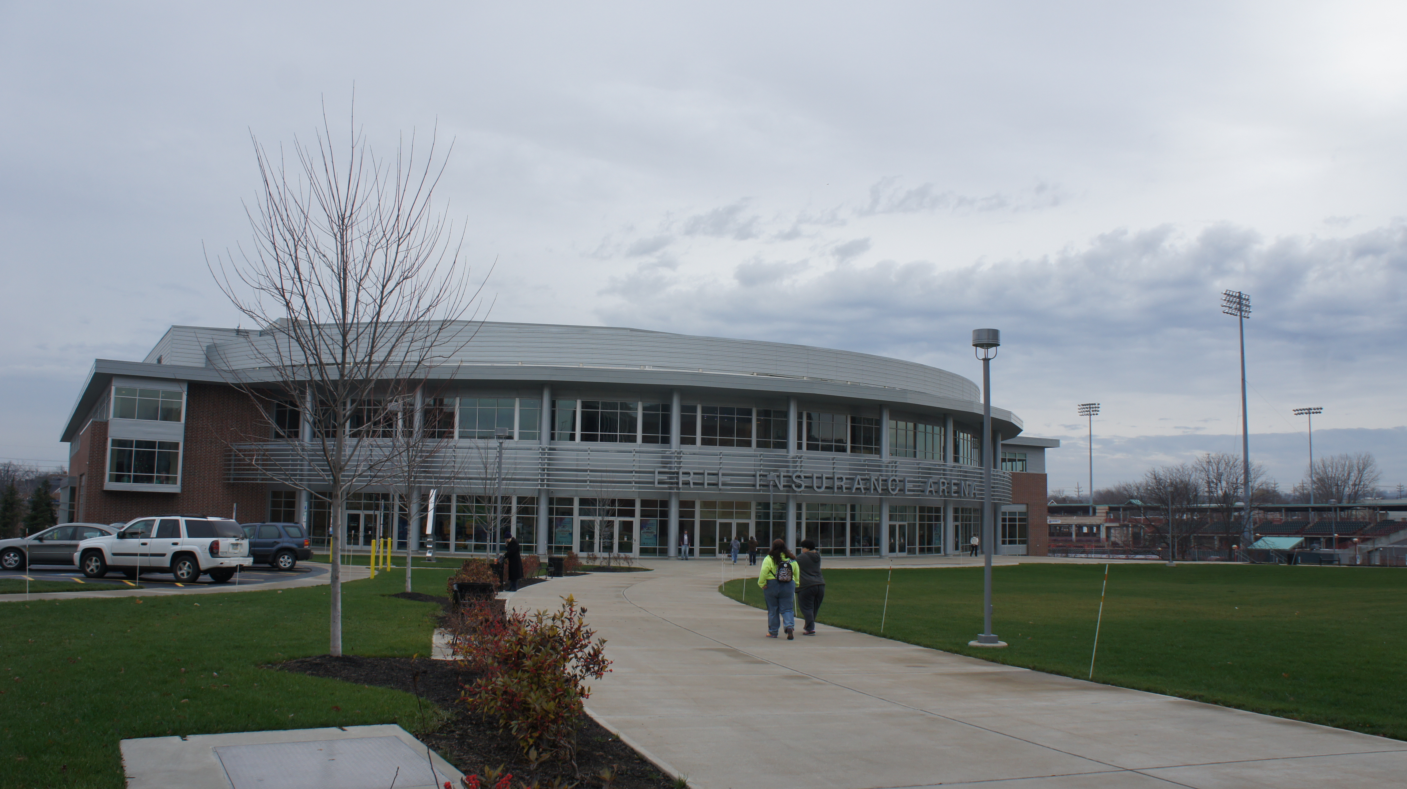 Erie Insurance Arena - Exterior